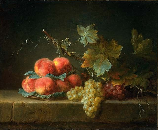 Still Life with Peaches and Grapes